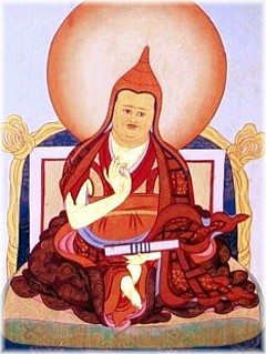 Miphan photo